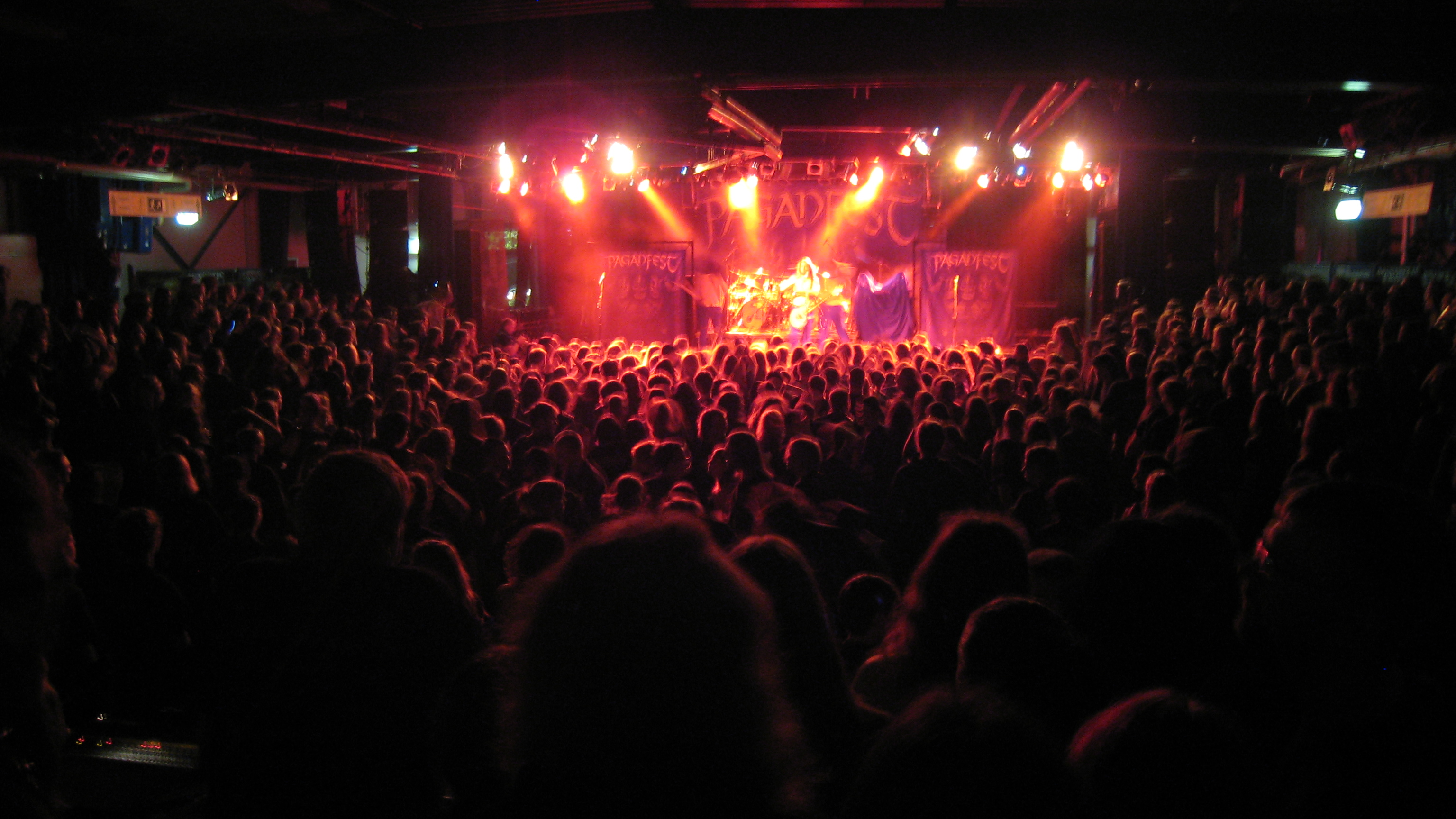 Týr live at Paganfest 2007 in Munich.